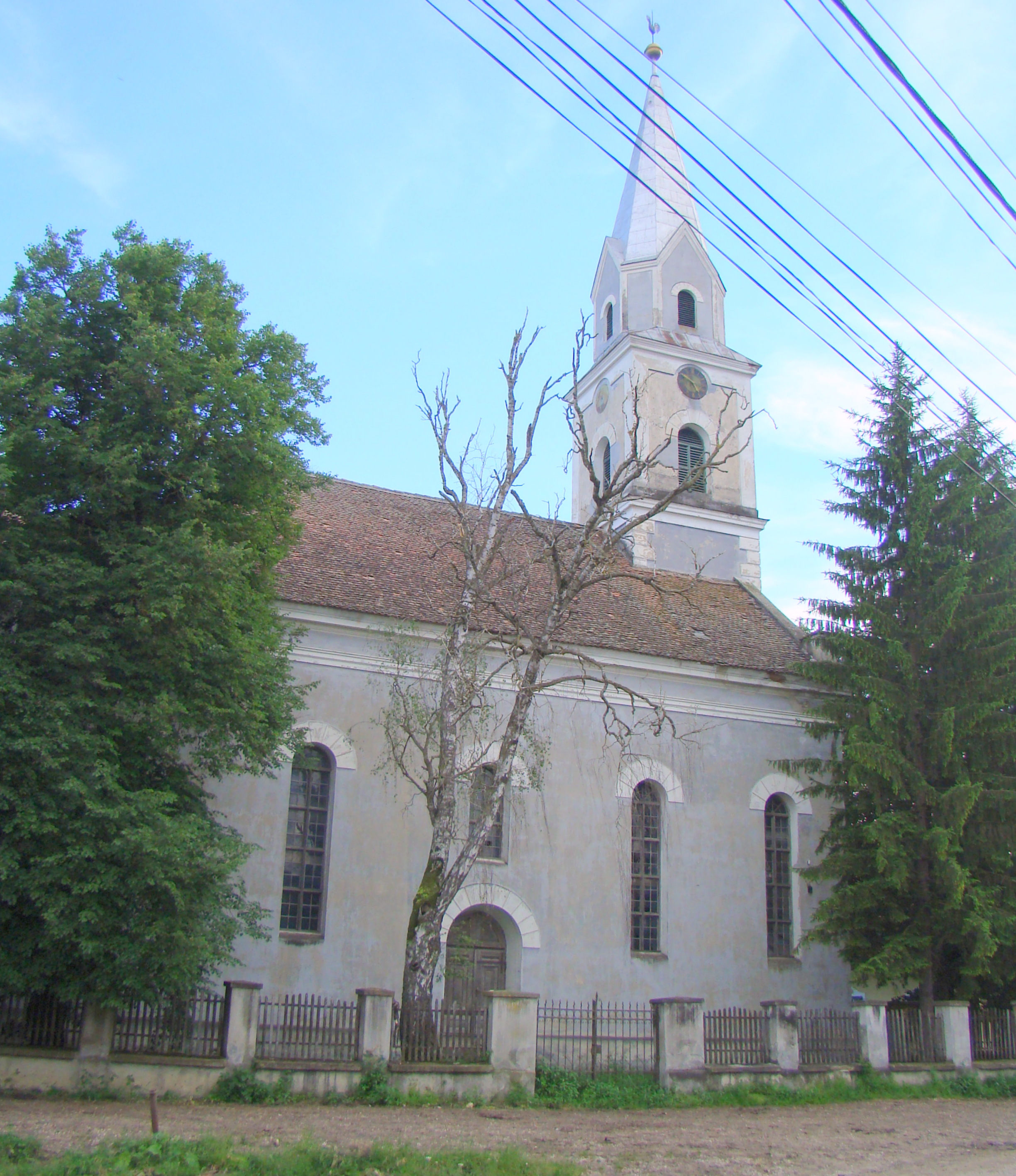 Lutheran church in Lovnic, Brașov County, Romania